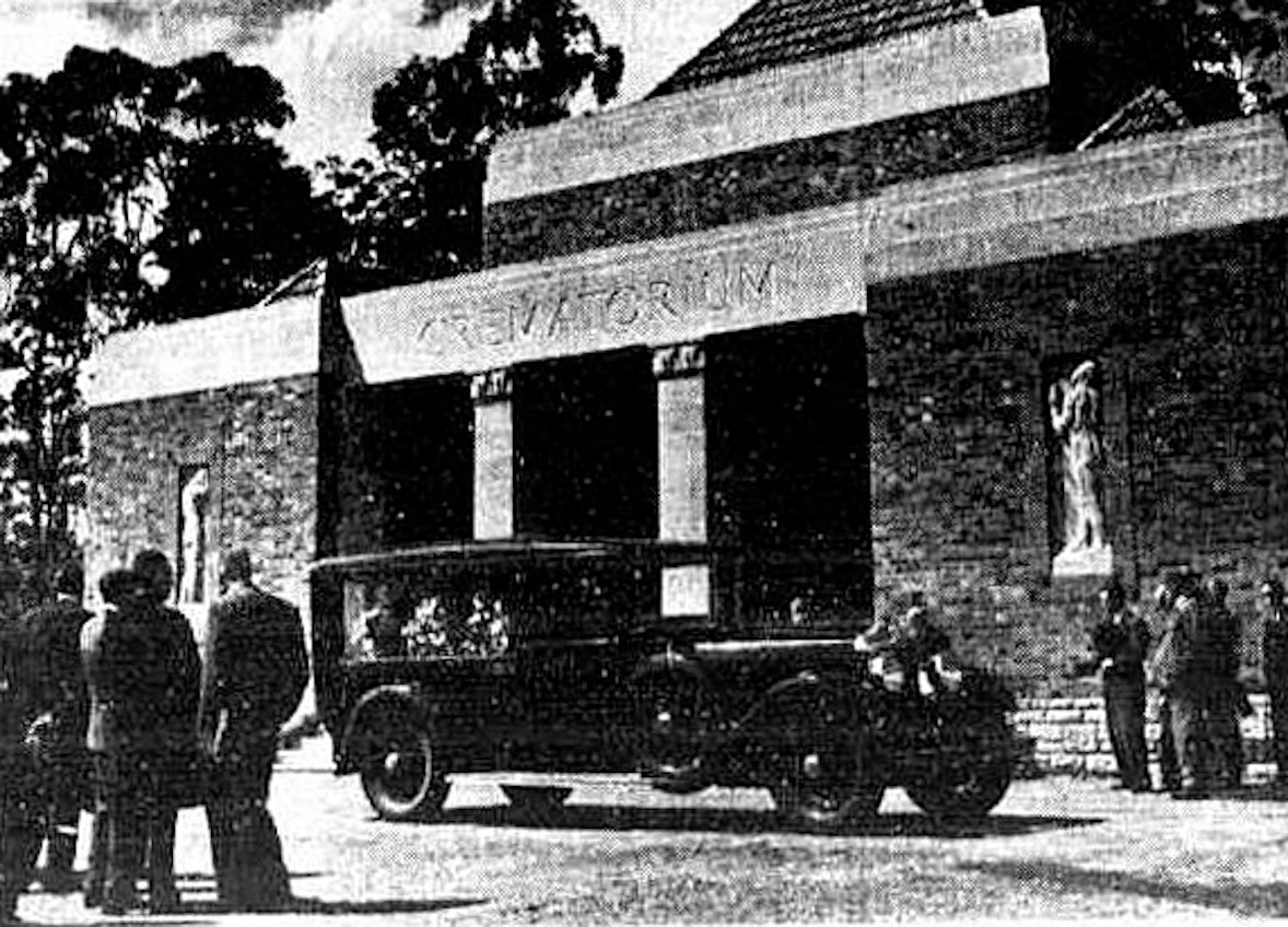 The hearse carrying Neil Richmond Rose of Wynnum, Queensland outside the new Brisbane Crematorium (later known as Mount Thompson Memorial Gardens and Crematorium). This was the first service at the crematorium on 11 Sep 1934. The relief sculptures flanking the entrance are Grief and Hope by Daphne Mayo (1934). 329 Nursery Road, Holland Park, Brisbane, Queensland 4121